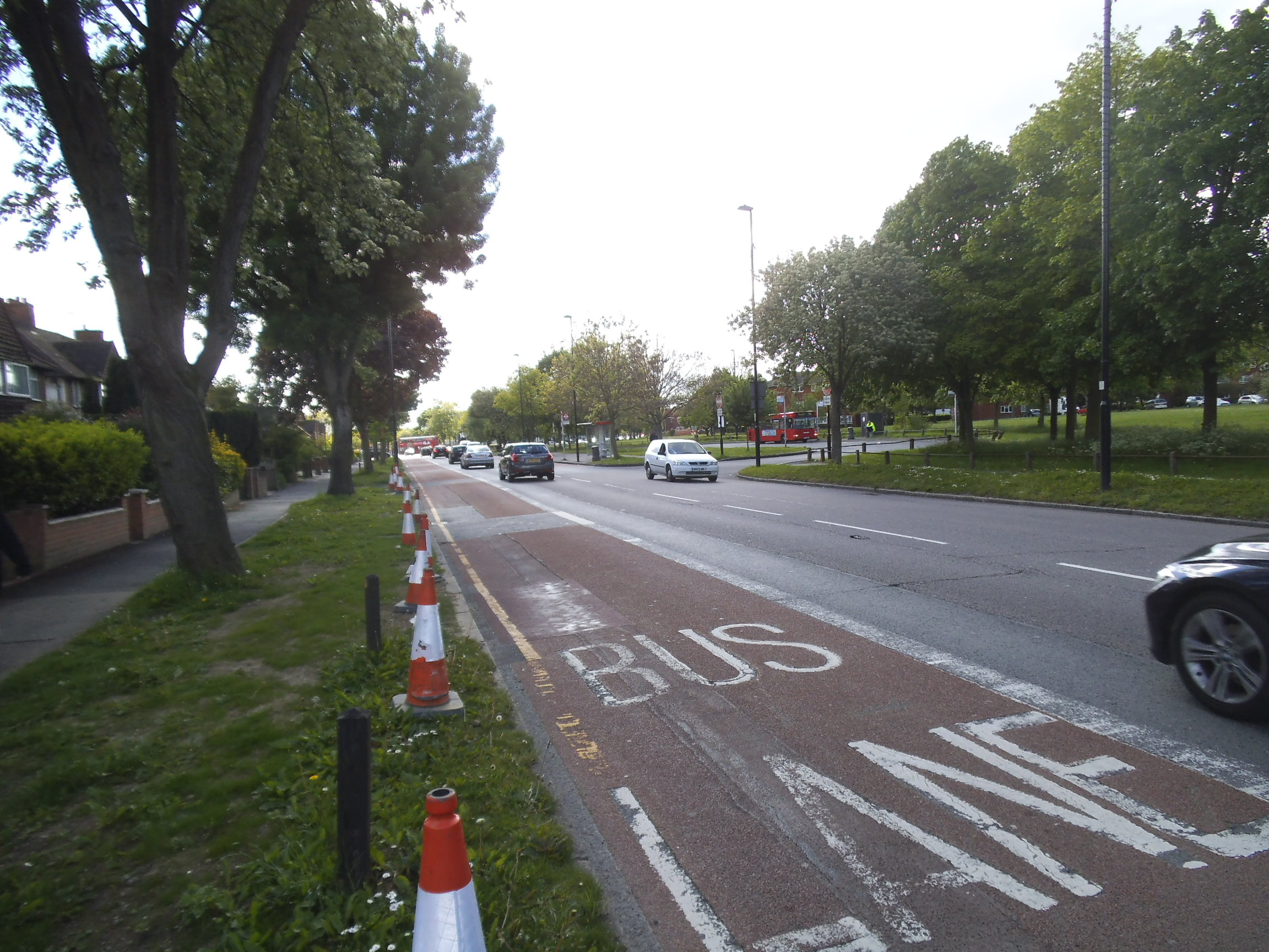 Northolt, UB6